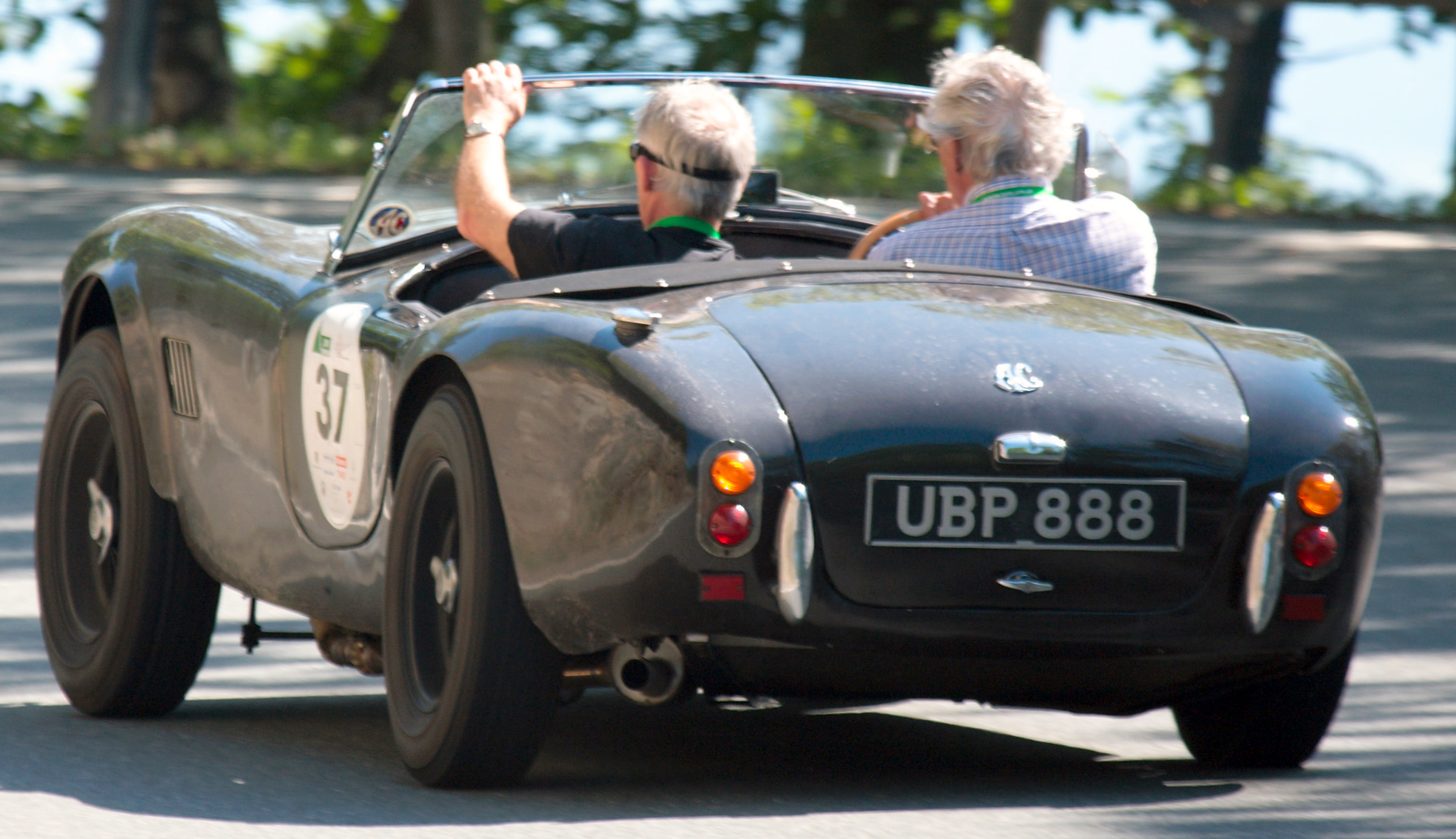 1955 AC Ace at Gaisbergrennen 2009. According to the DVLA this car has a 2553 cc engine, which would imply that it has been retro-fitted with a Ford Zephyr engine in place of the original AC unit.